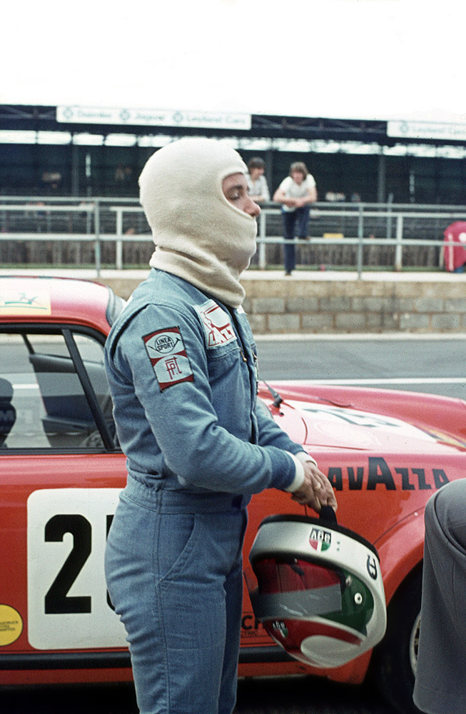 Silverstone 6 hours